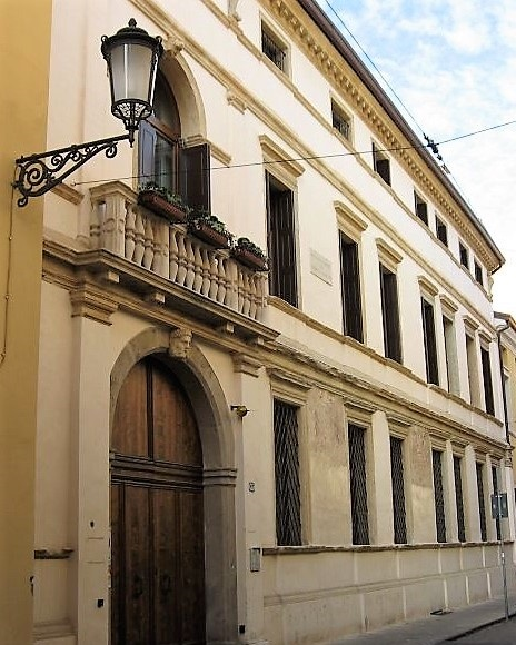 Polcastro palace, Padua